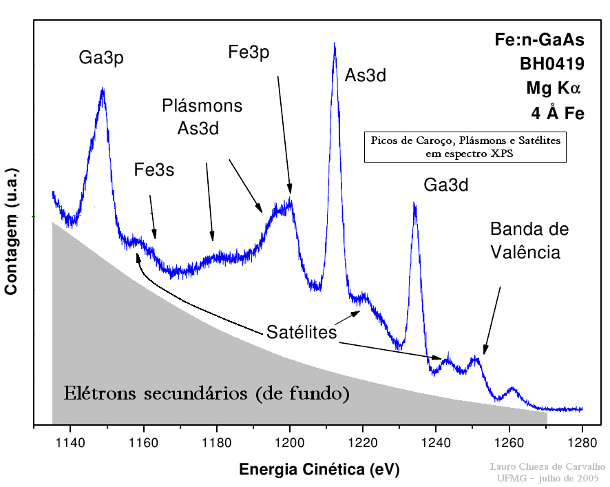 Core peaks, secundary base, plasmons and satelites in XPS spectrum.